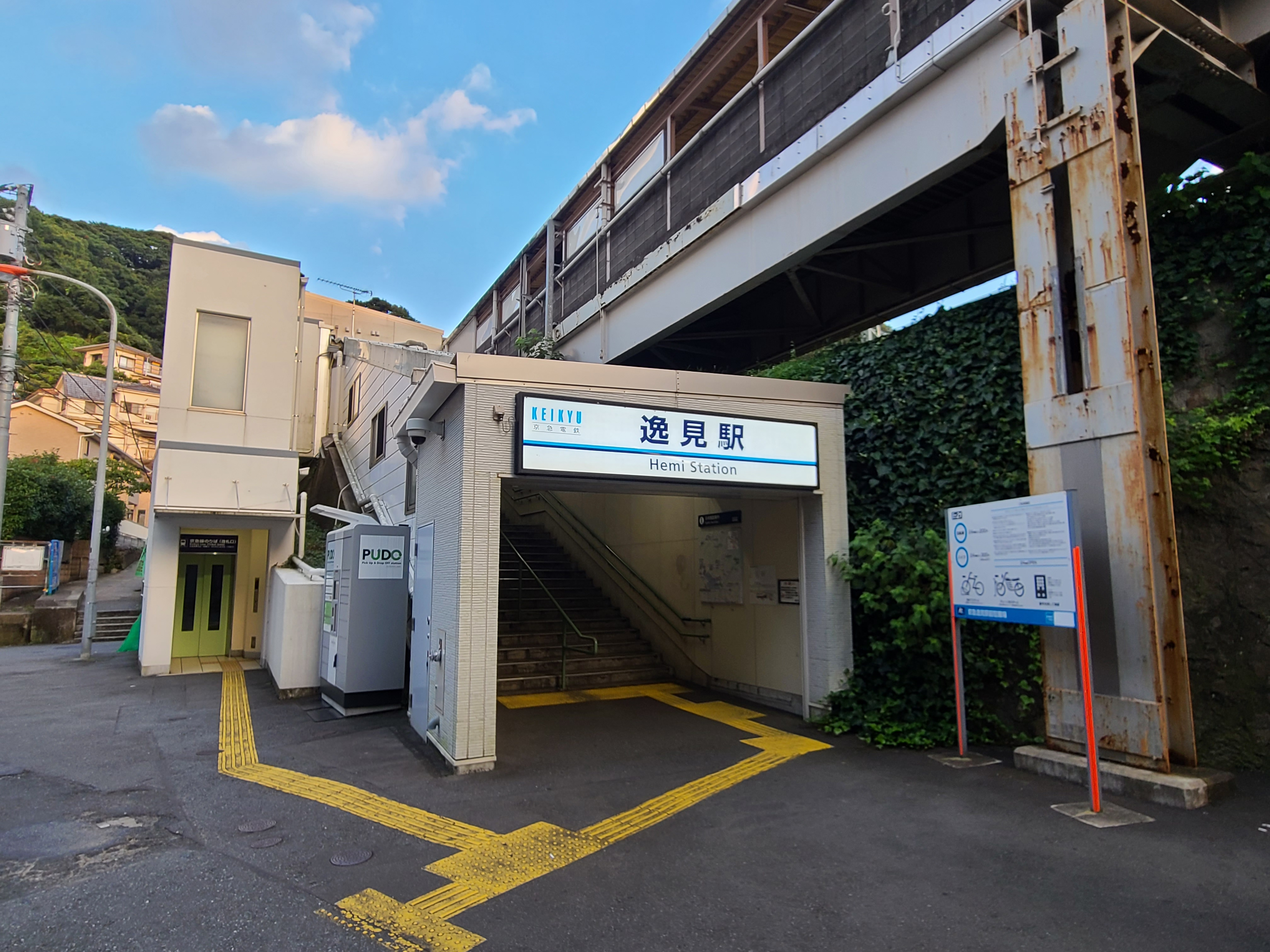 This is the gateway to Hemi Station.